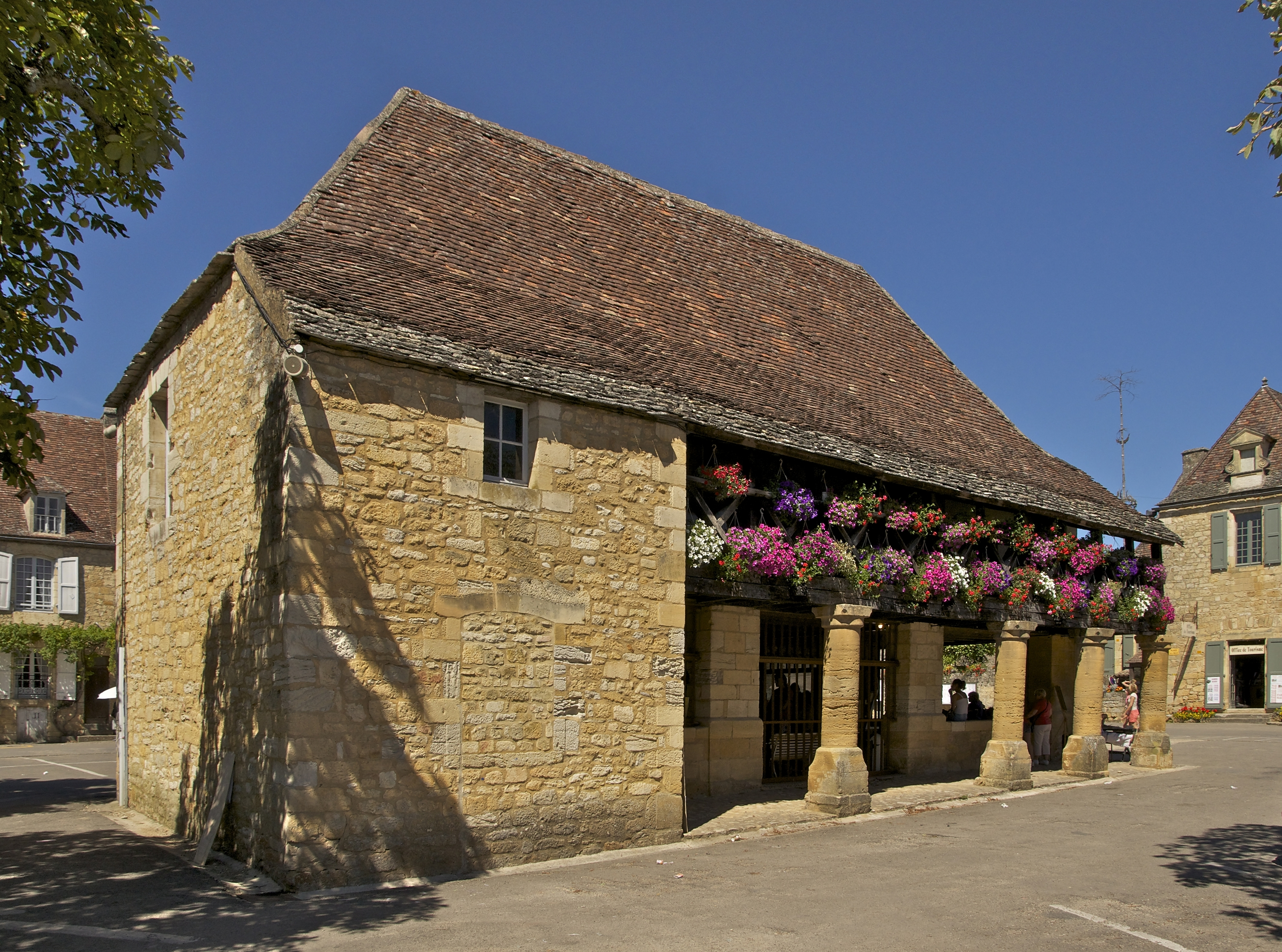 The market hall (18th century) in Domme, Dordogne, France.